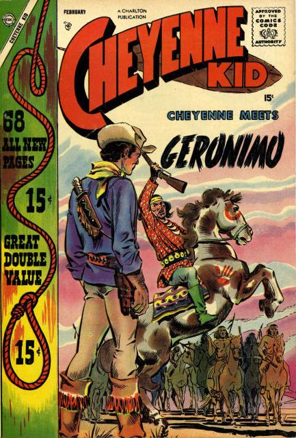 Cover art of Cheyenne Kid #11, Harvey Comics, February 1958